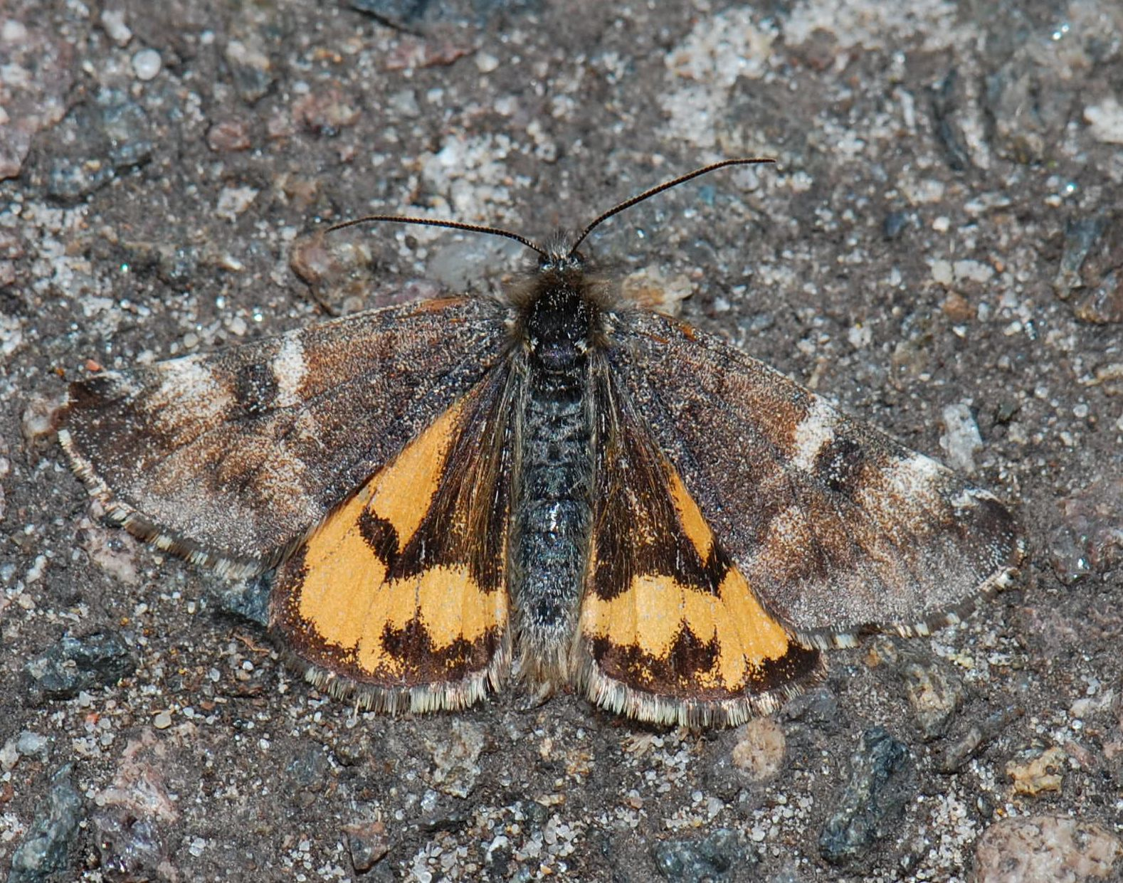 Archiearis_parthenias, male. Berlin-Köpenick. det. Benutzer:Olei